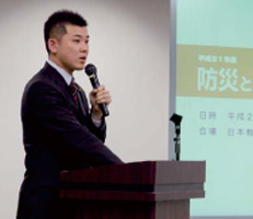 Kenta Izumi, Parliamentary Secretary of Cabinet Office, attended a meeting about disaster prevention and volunteer activity in Tōkyō Metropolis on January 24, 2010. (For terms of use, see 内閣府ホームページ利用規約 - 内閣府.)